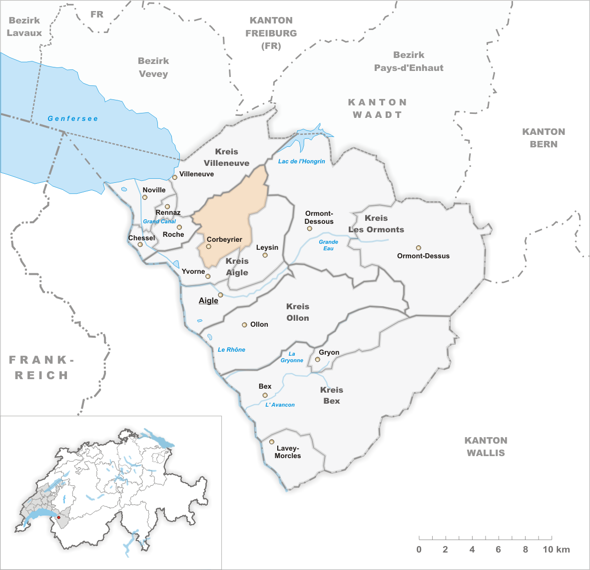 Municipality Corbeyrier